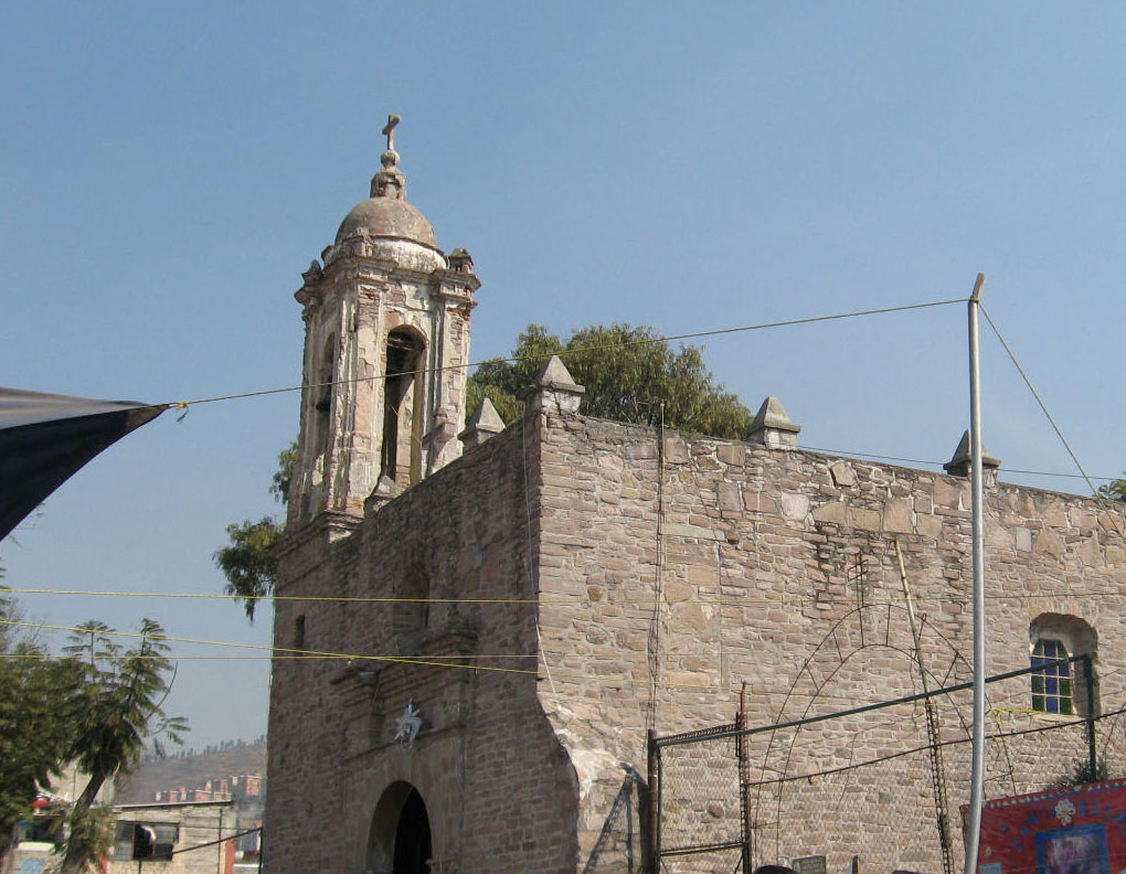 Parish church of Santa Cecelia Acatitlan in Tlalnepantla Mexico. Some of the building material for this church comes from the now-rebuilt pyramid of Acatitlan which is behind this church